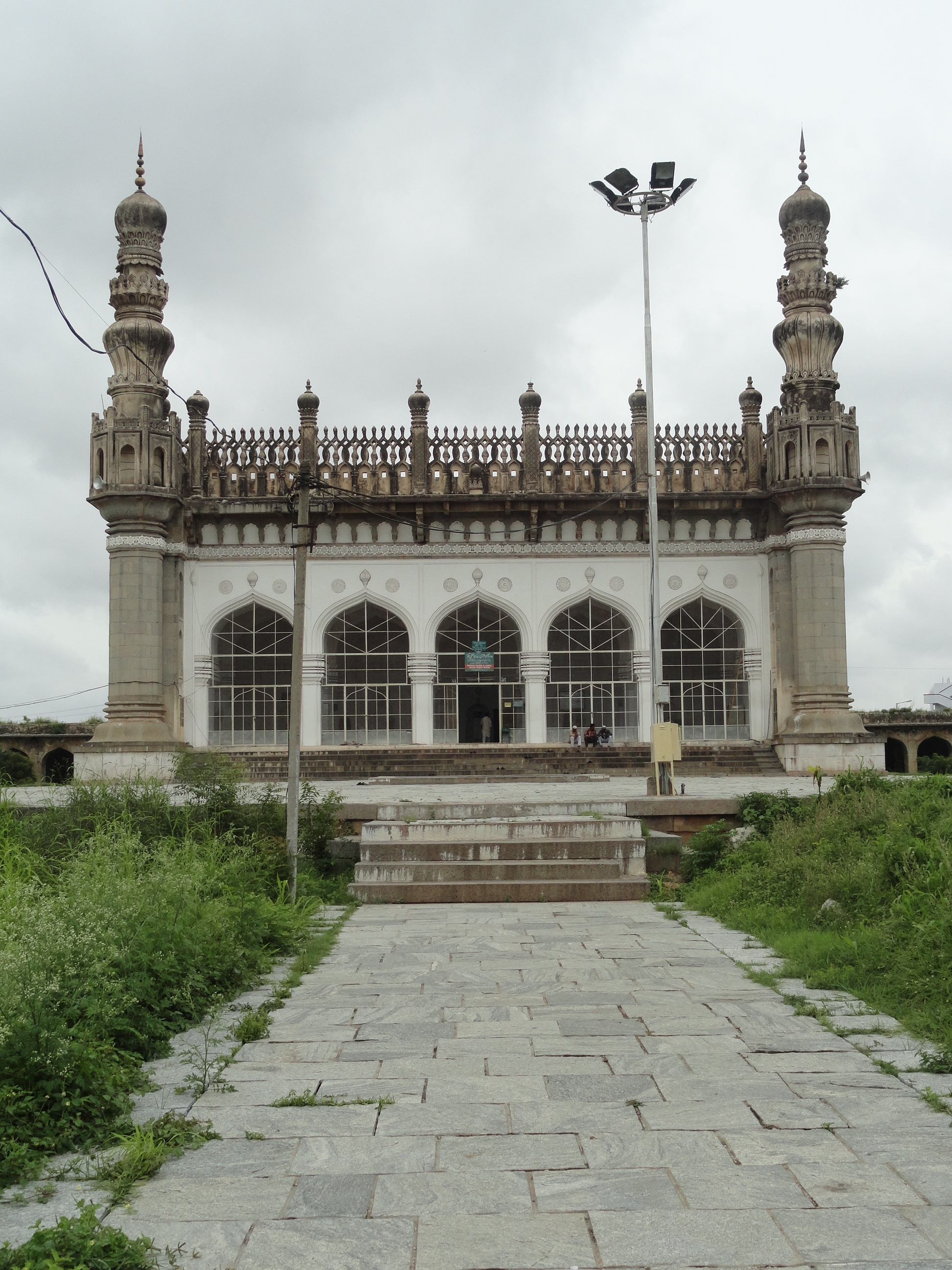 full picture of the hayat bakshi begum mosque at hayat nagar near hyderabad. India